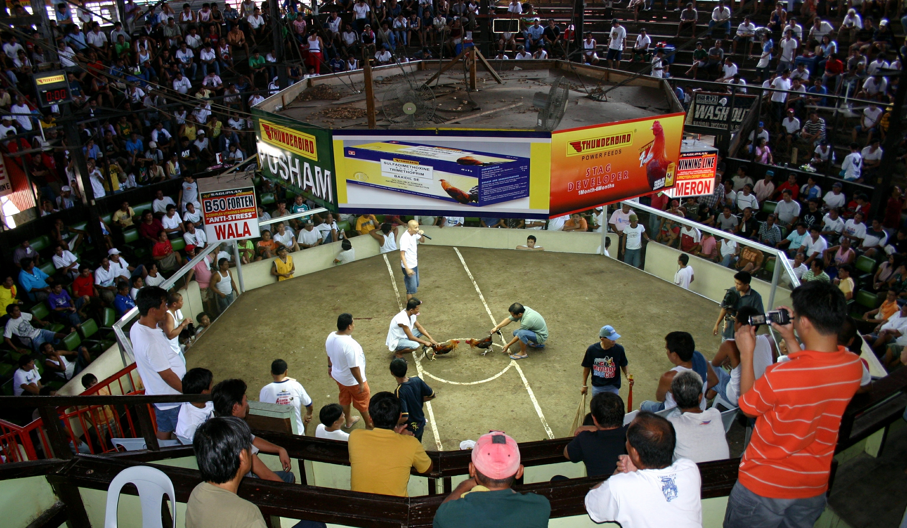 Cock Fight Arina, Davao